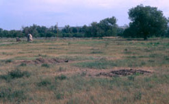 Monument at the Fort Pierre Chouteau Site, a National Historic Landmark in Stanley County, South Dakota, United States.